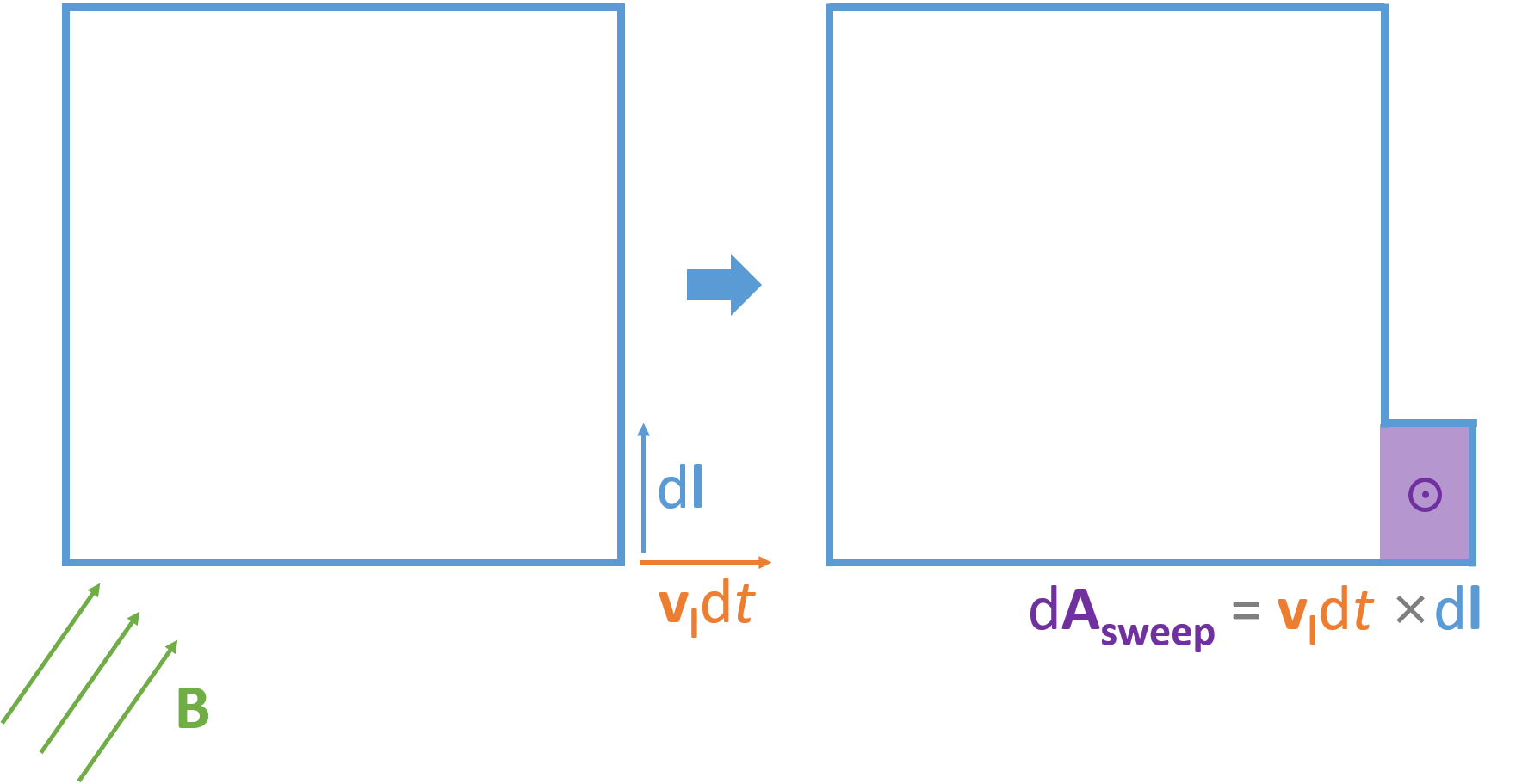 The area swept out by a vector element dl of a loop ∂Σ in time dt when it has moved with velocity vl.